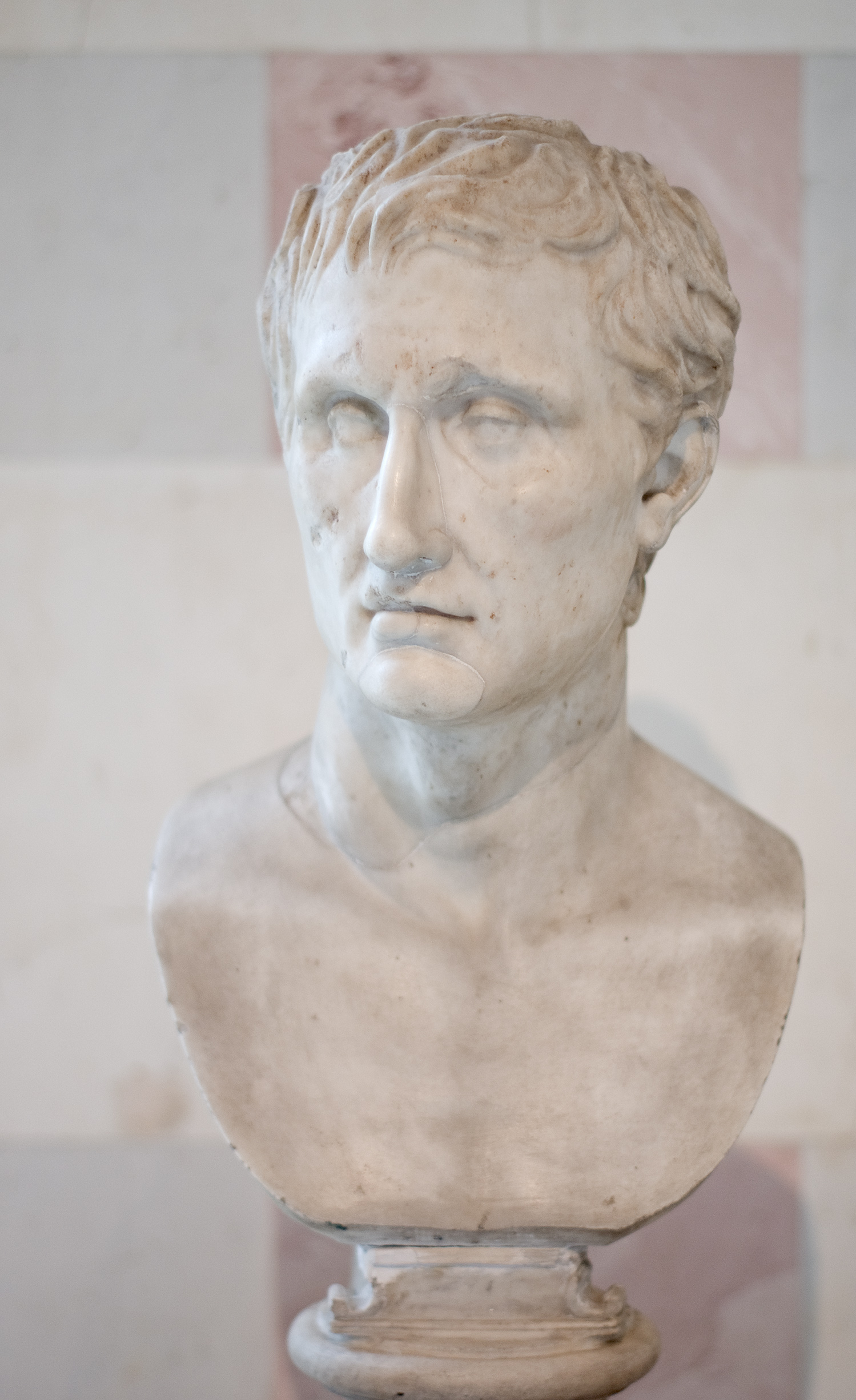 Menander (Greek playwright, 343-291 B.C.). Roman copy, after original by Kephisodotos the Younger and Timarchos, sons of Praxiteles, of 4th century B.C. Marble. The Hermitage, St. Petersburg, Russia.